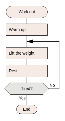 A do-check loop in DRAKON